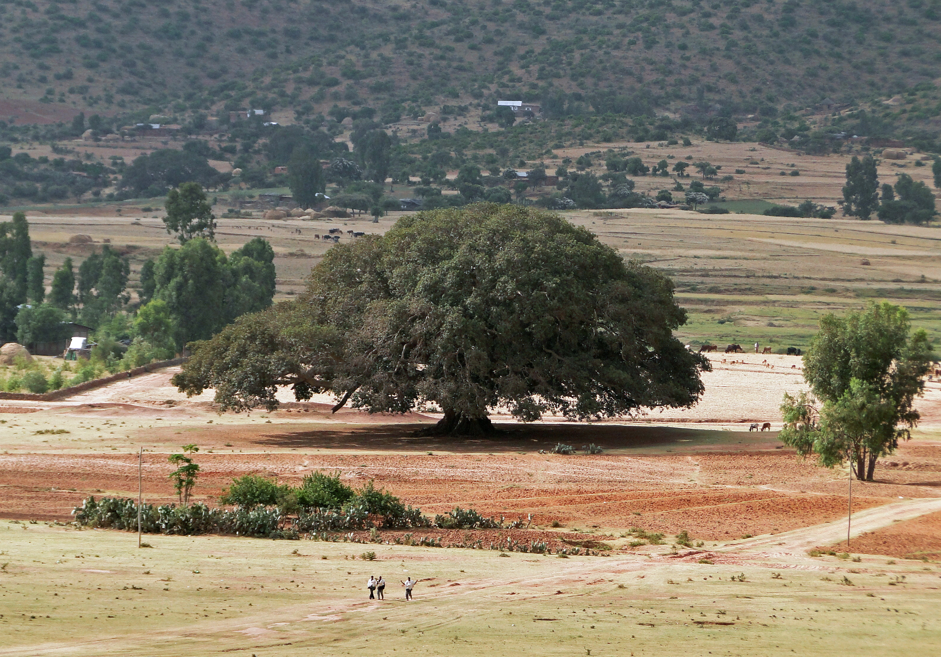 Ficus sycomorus near Abreha and Atsbeha Church in Ethiopia